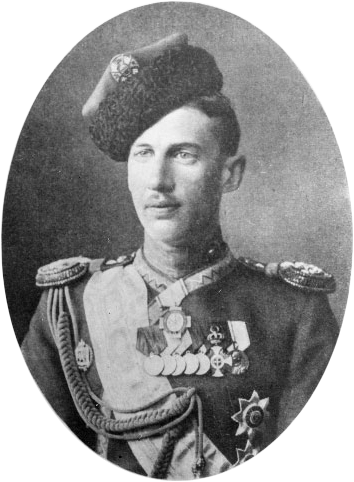 Ioann Konstantinovich of Russia